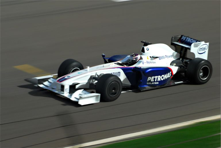 Christian Klien at F1 2009 Pre-Season testing in Bahrain International Circuit